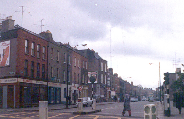 Photo of Charlemont Street in Dublin, Ireland, early 70s, taken by me. Scanned in by me.